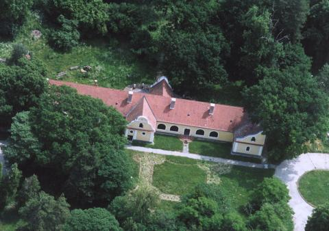 Csombárd, Hungary, aerial photography